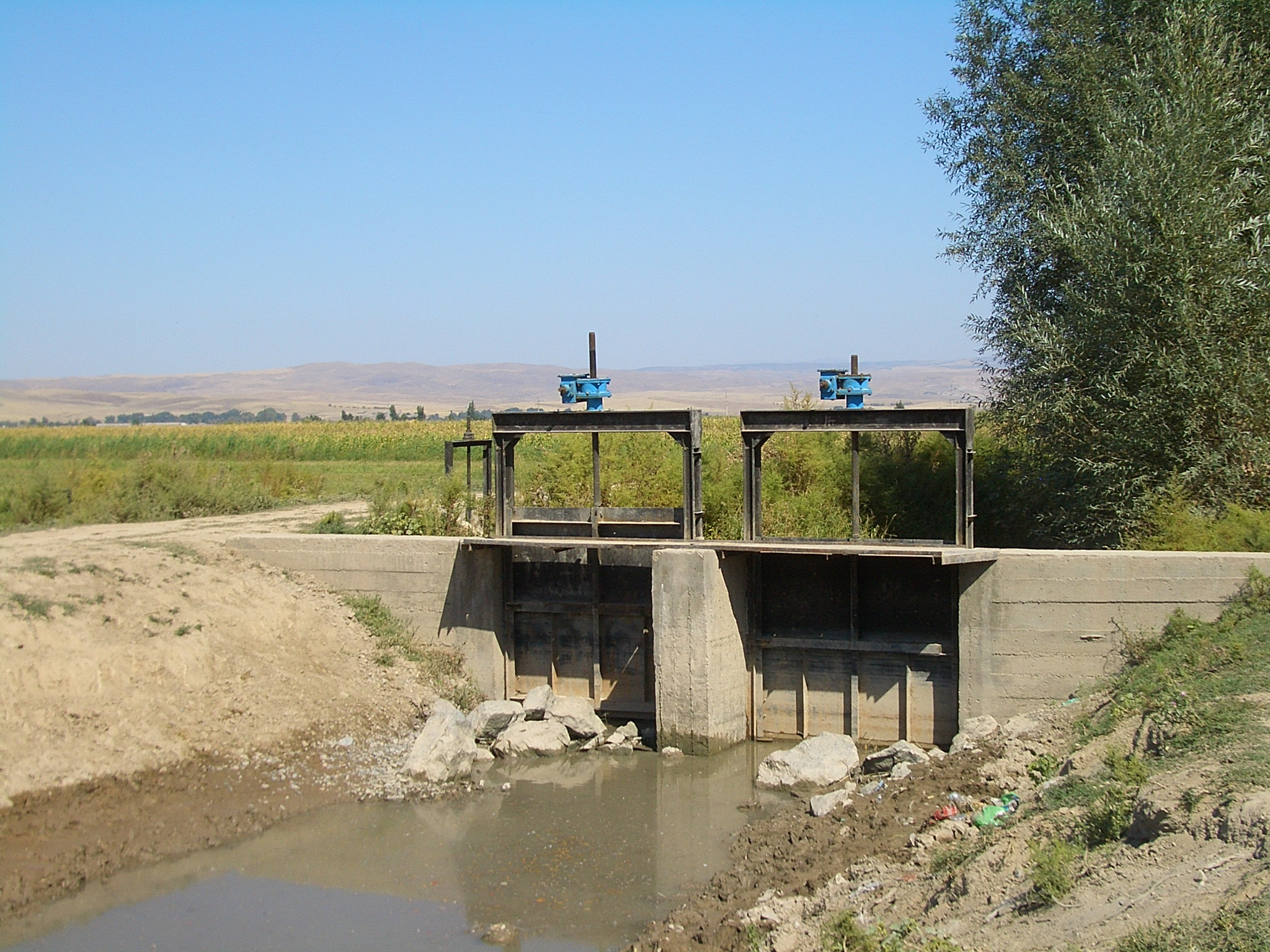 Flow gates on an irrigation canal, just west of the village of Milyanfan in Chuy Province of Kyrgyzstan.